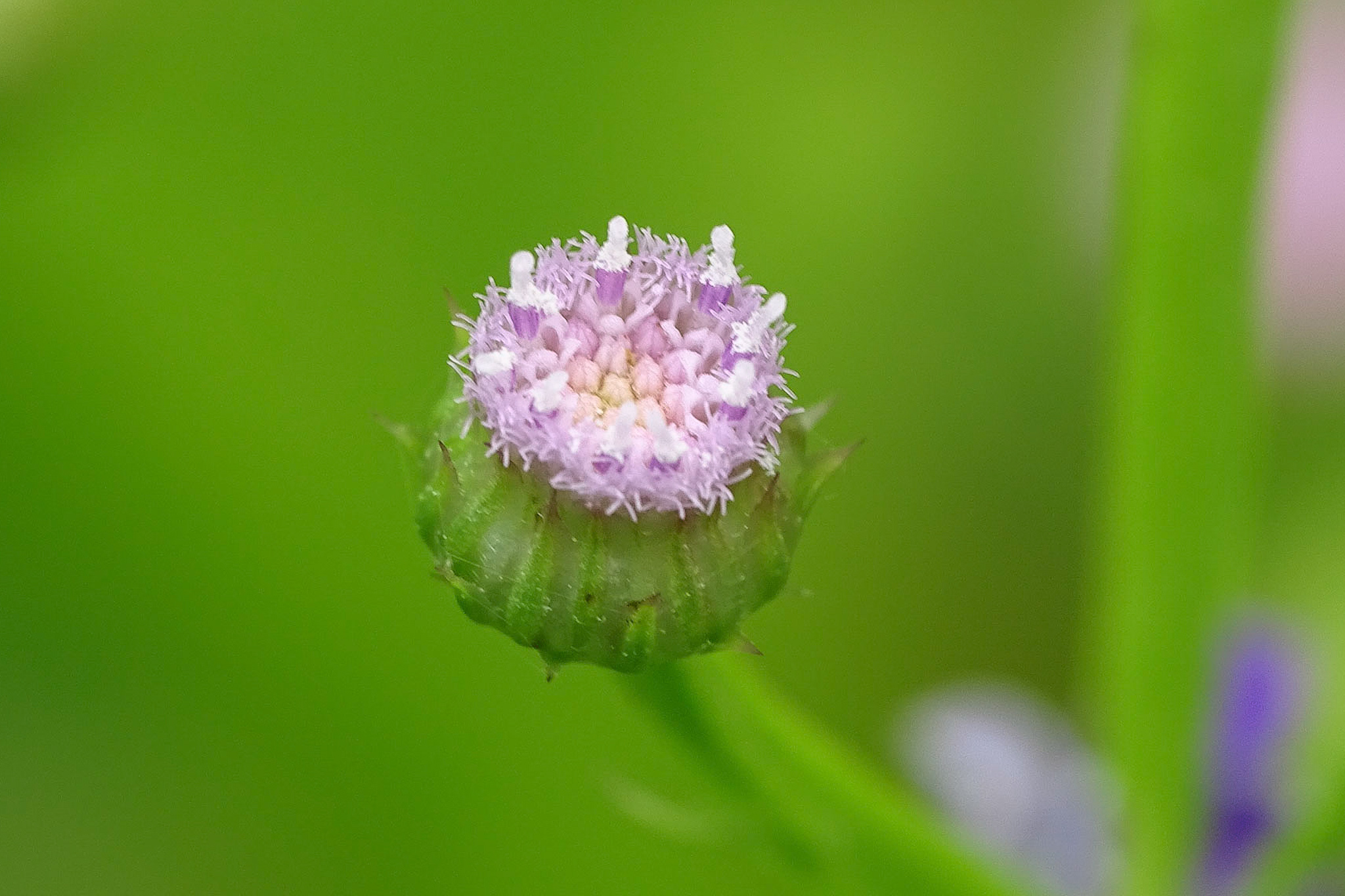 Flower head of Epaltes divaricata, at Ezhupunna, Alappuzha in Kerala, India